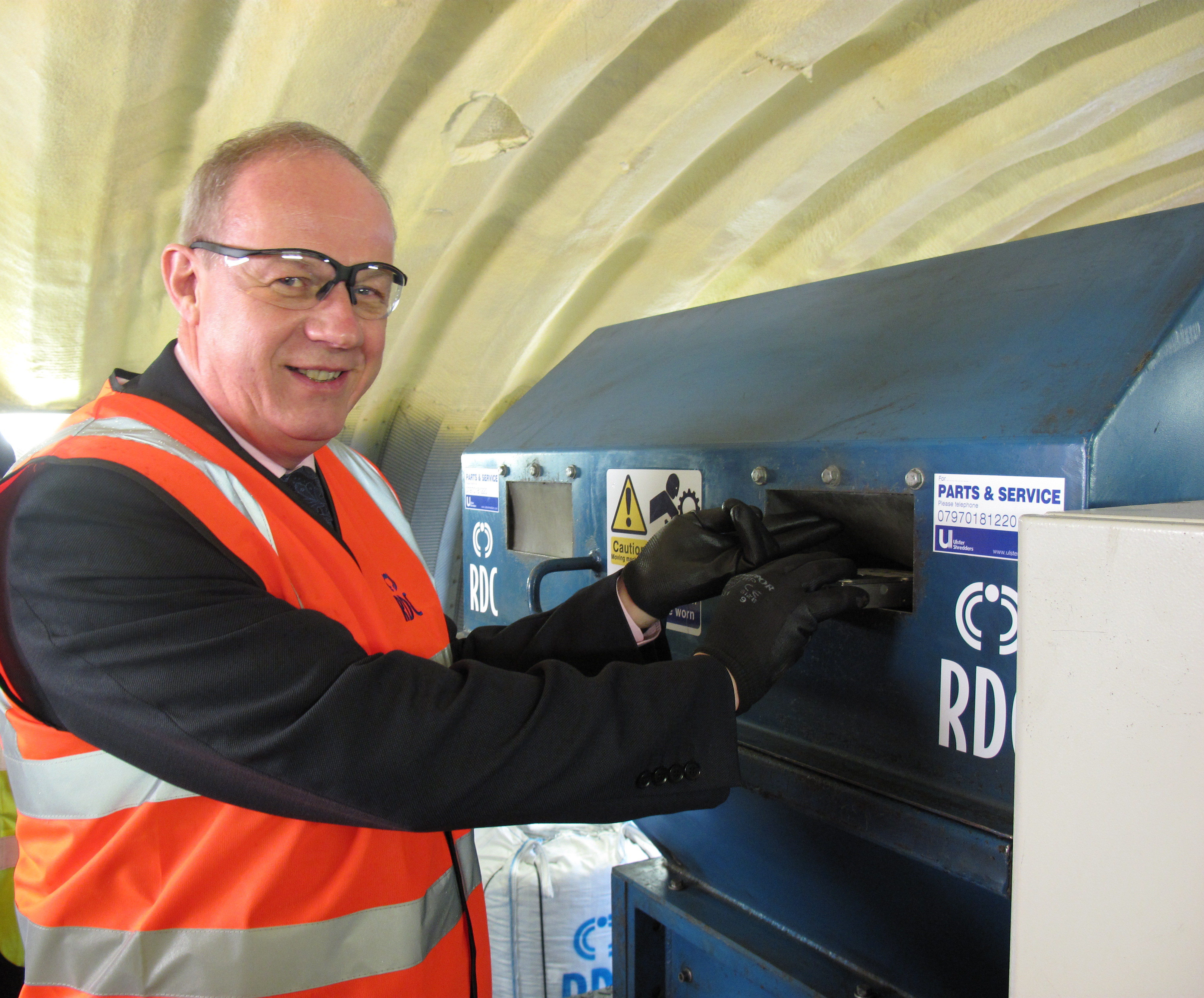 Destruction of the National Identity Register